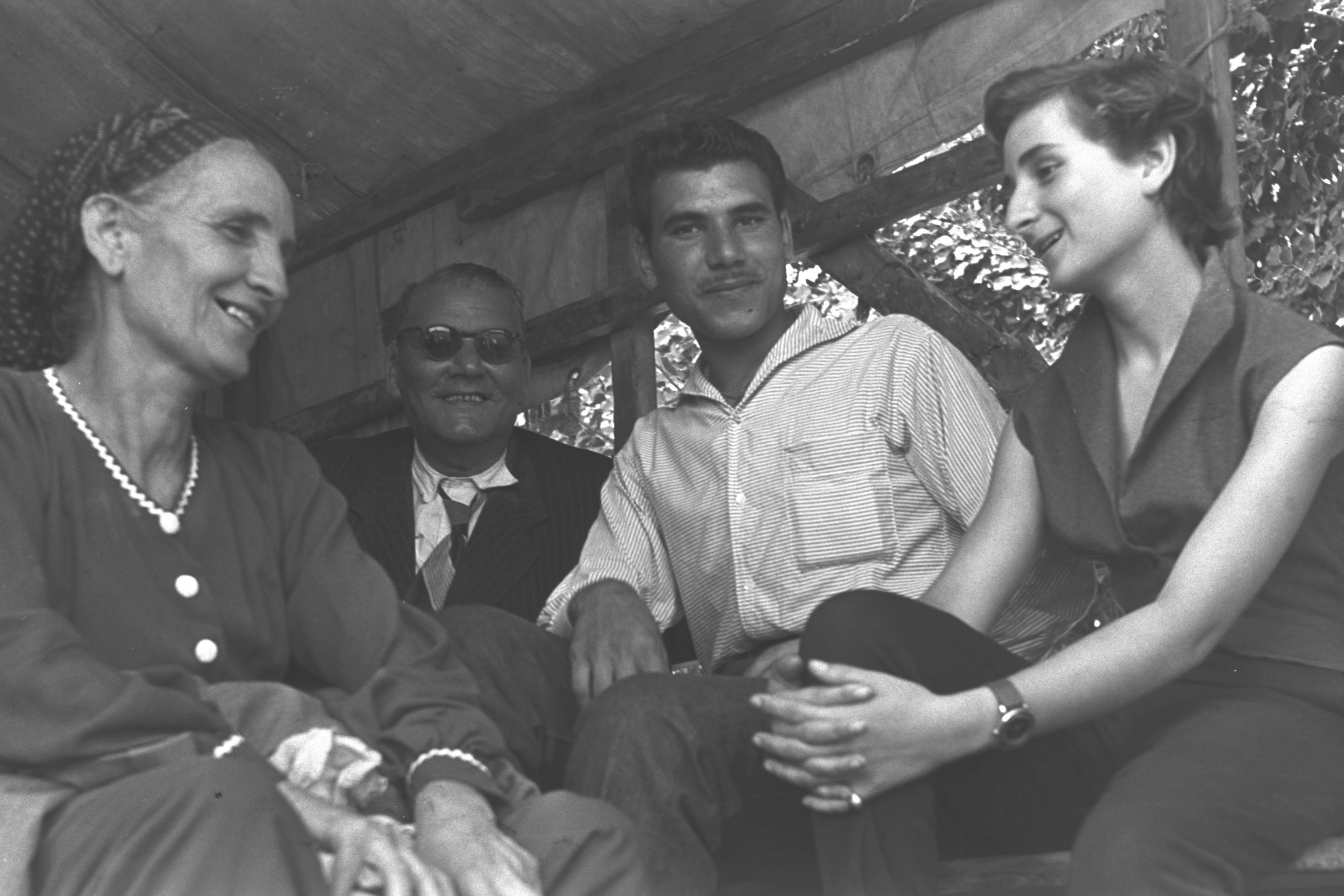 New olim from Morocco on the way to the Negev village, near Beer Sheva, Moroccan immigrants.